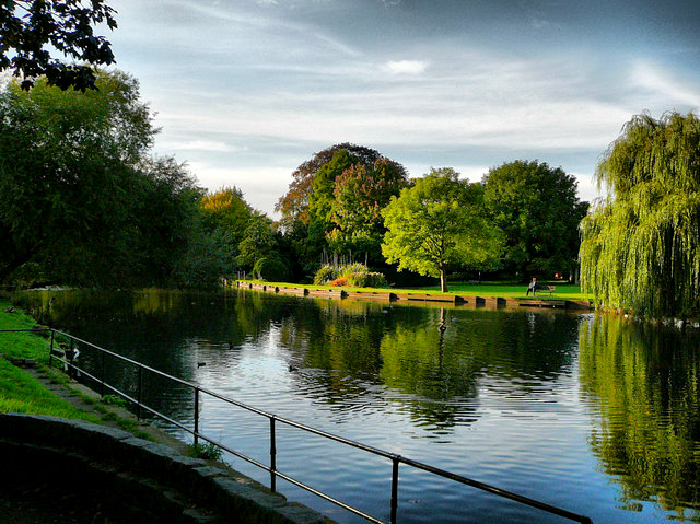 Boating lake, Beddington Park Boating lake, Beddington Park in September 2006